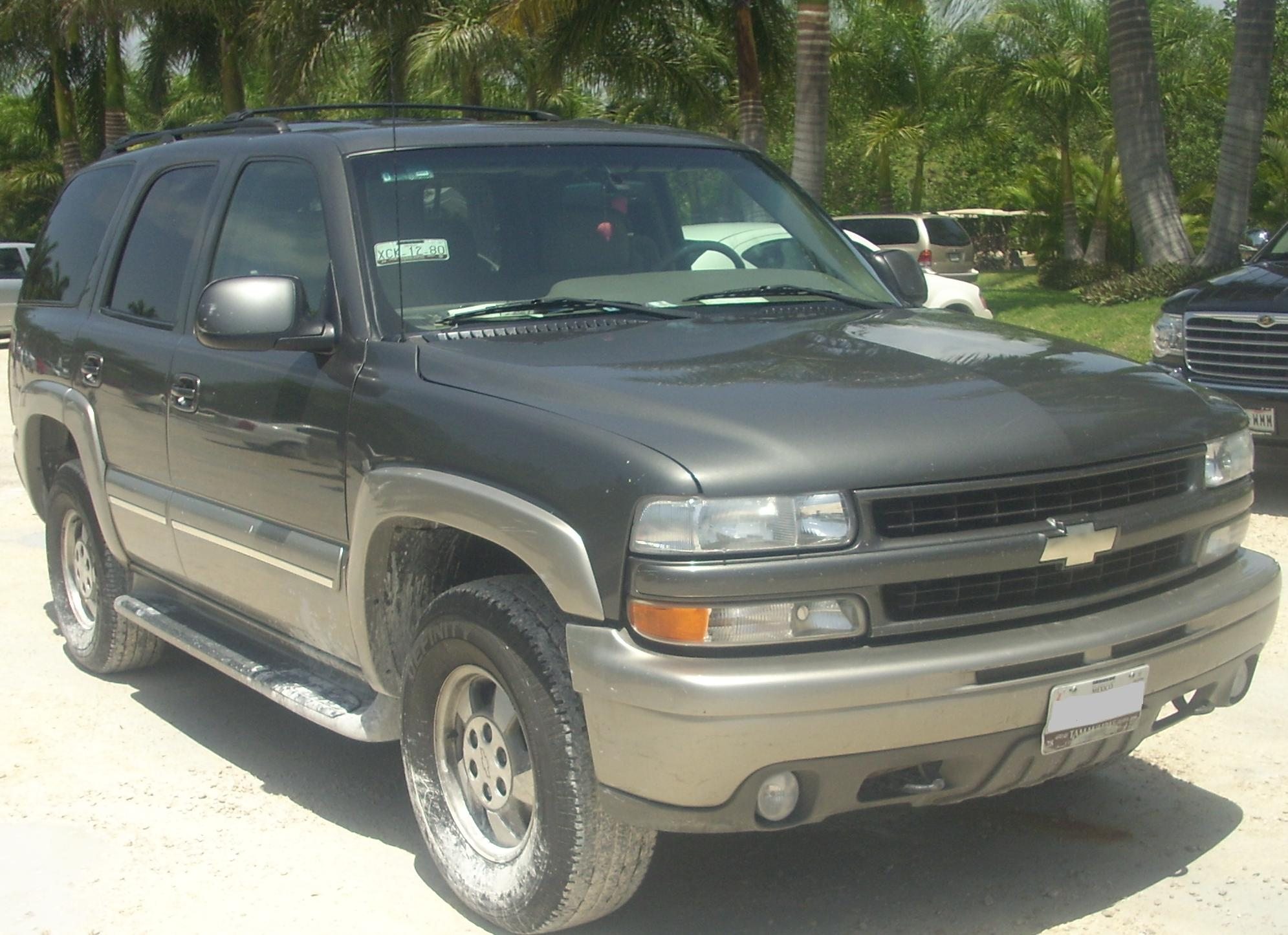 Chevrolet Sonora photographed in Cancun, Quintana Roo, Mexico